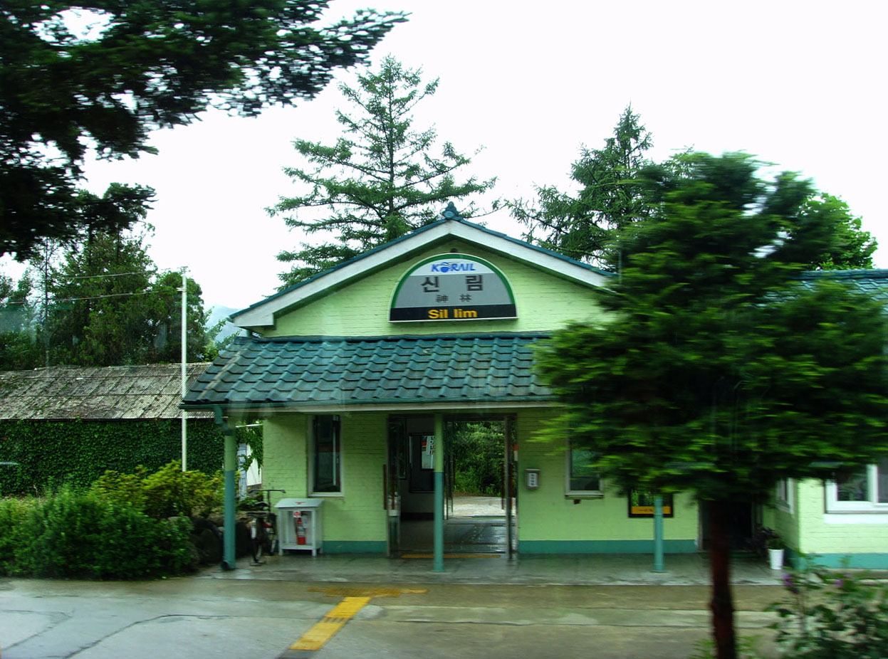 Jungang Line Sillim Station